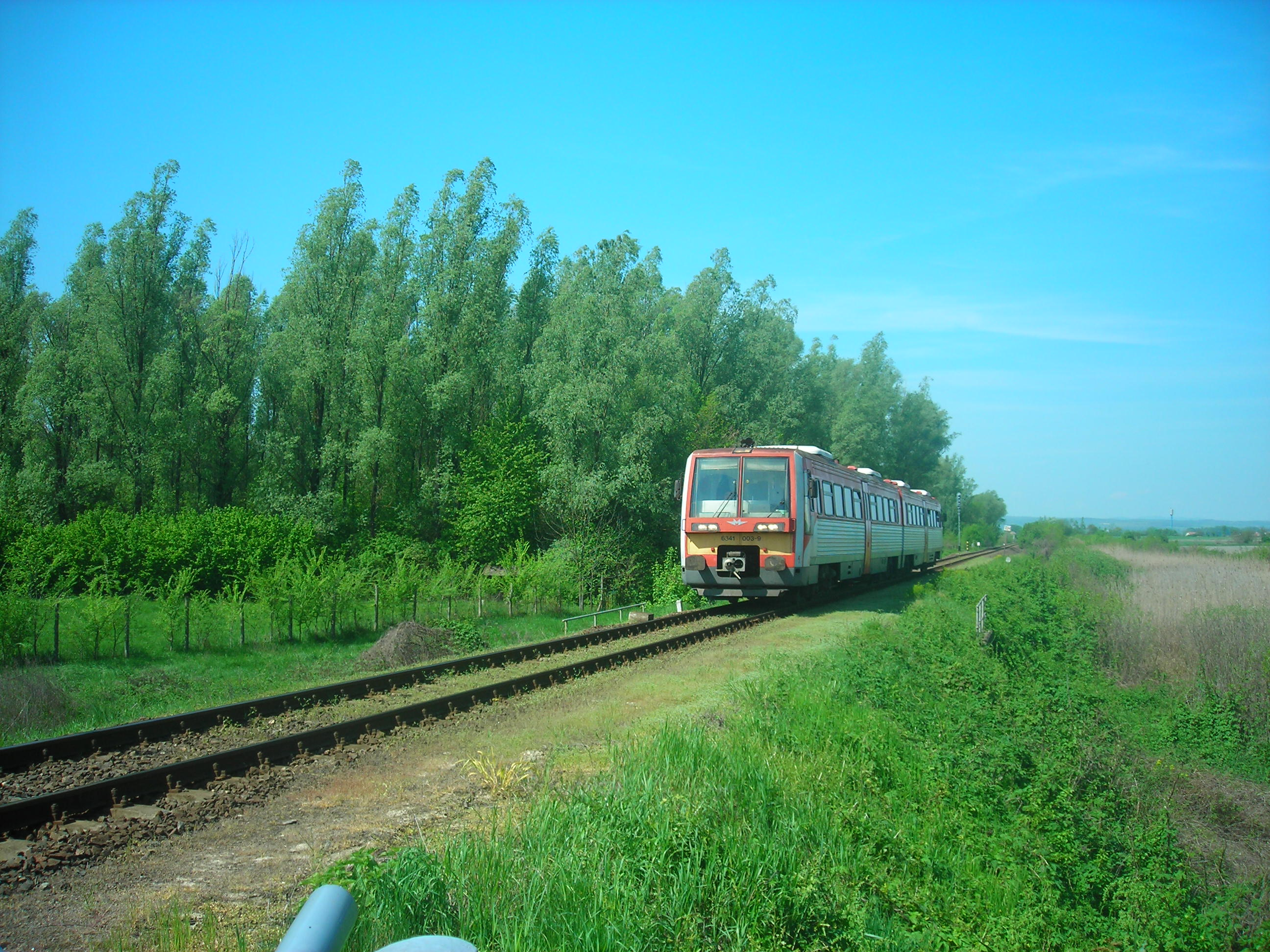 Interregio train in Pörböly